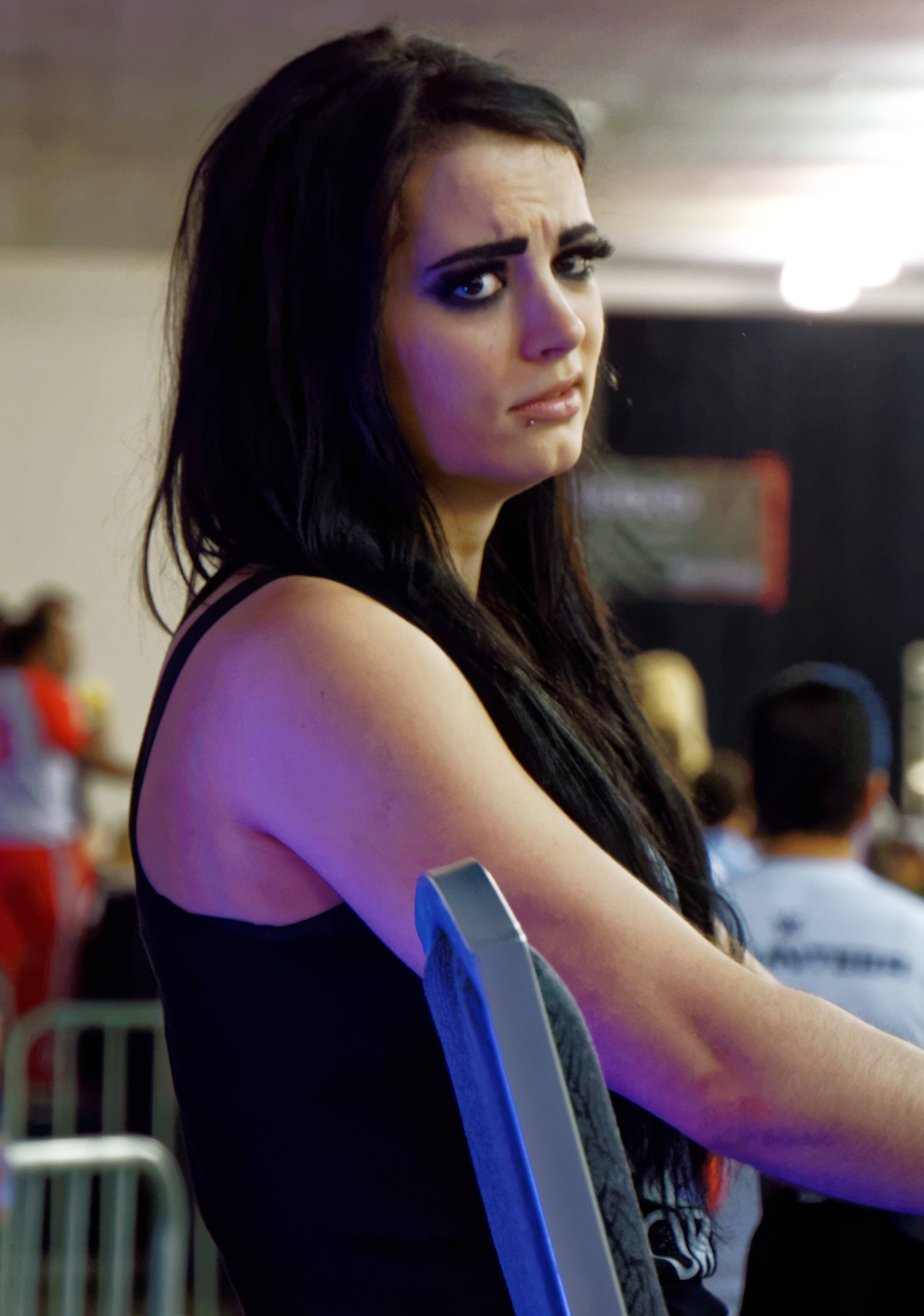 Paige at WrestleMania 31